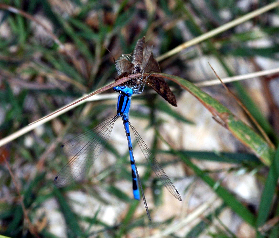 Eating small moth, Amistad National Rec Area, Val Verde County, TX, Spur 454